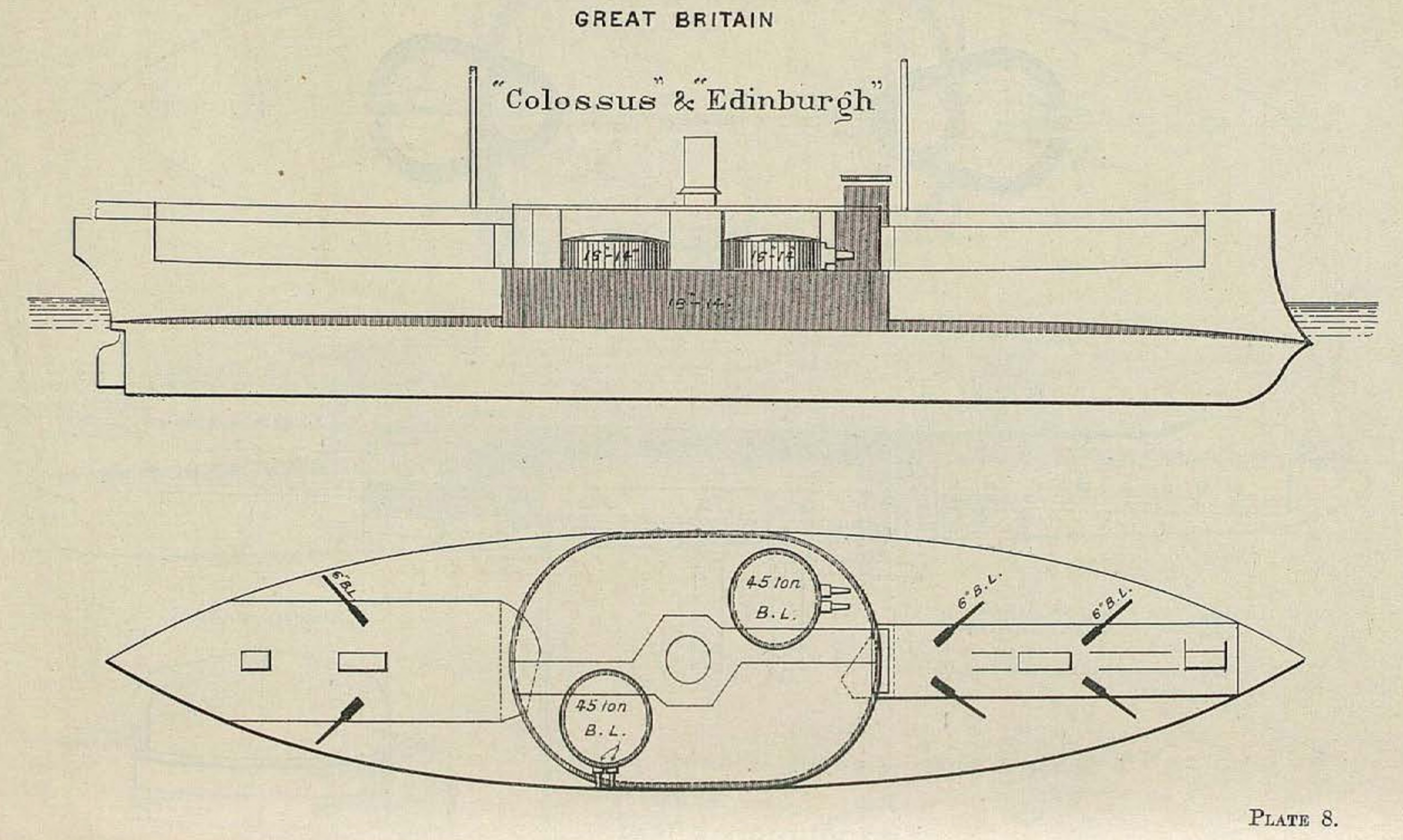 Basic right elevation and plan diagrams of British Colossus class battleship. Black areas show armour prection.